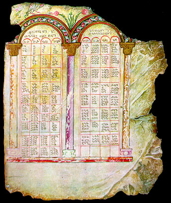 The Canon, a folio from the Georgian Adysh Gospels, 897 AD